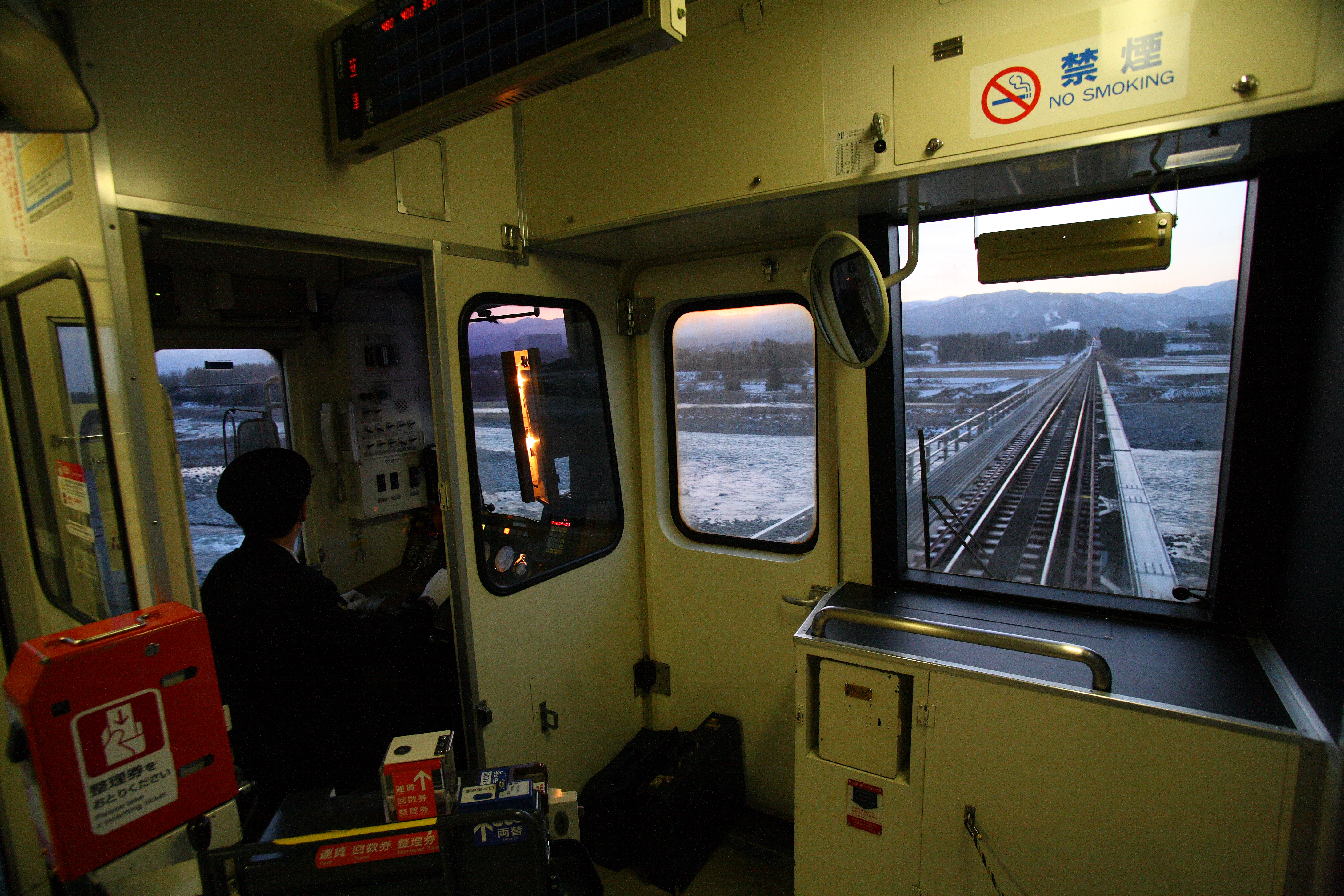 One-man-operated diesel train of Takayama Main Line. Canon EOS 5D